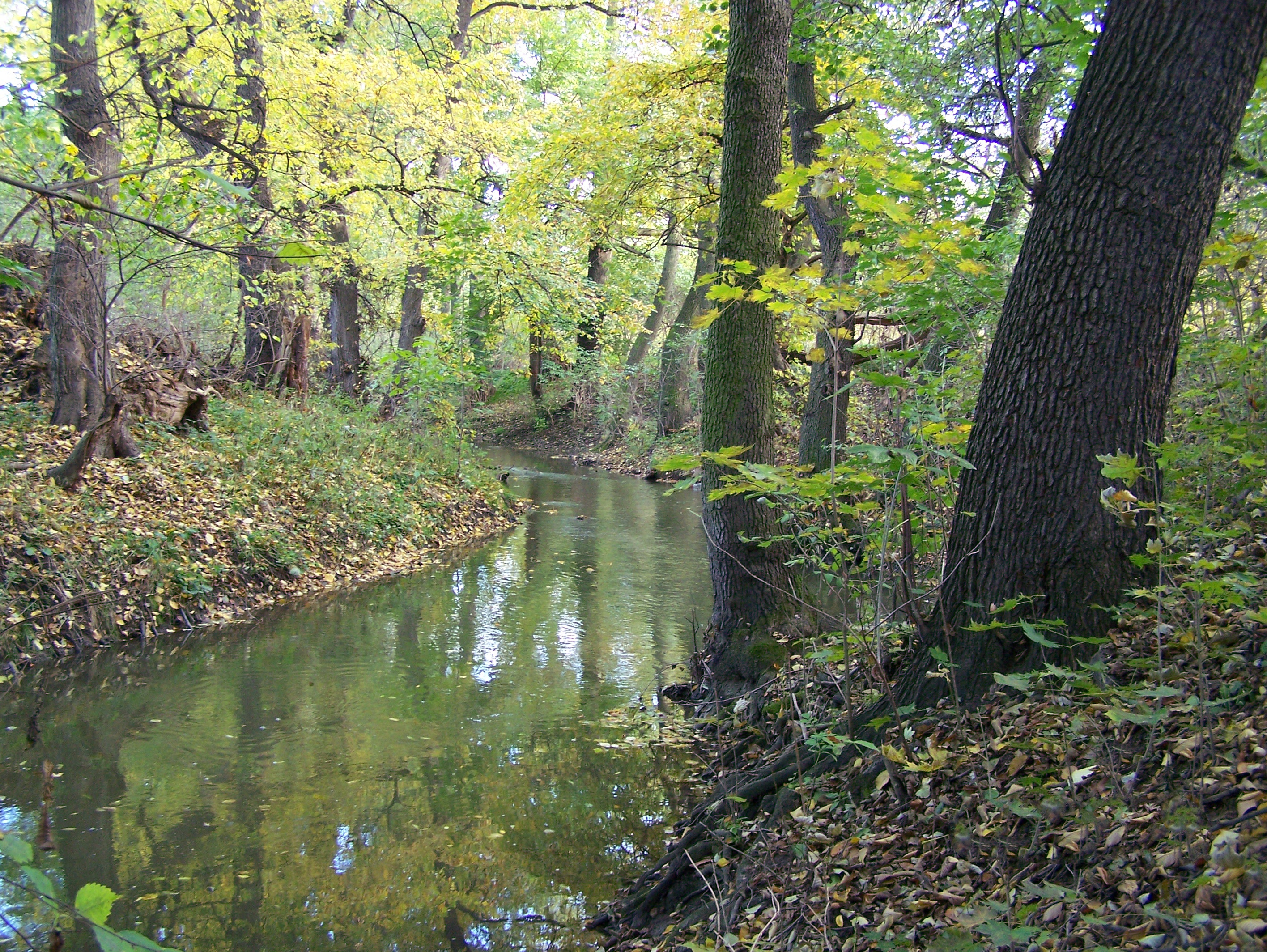 Natural monument Meandry Botiče in Prague, Czech Republic